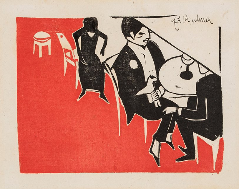 Gentleman with Lap-Dog in Café by Ernst Ludwig Kirchner, 1911, woodcut in two colors, 18.1 x 23.5 cm, private collection